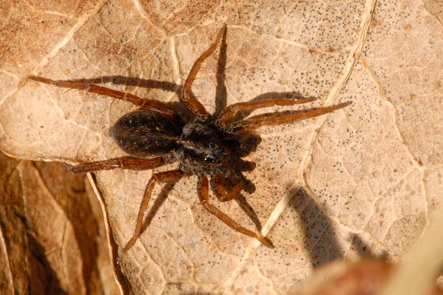 Trochosa ruricola from Commanster, Belgian High Ardennes .